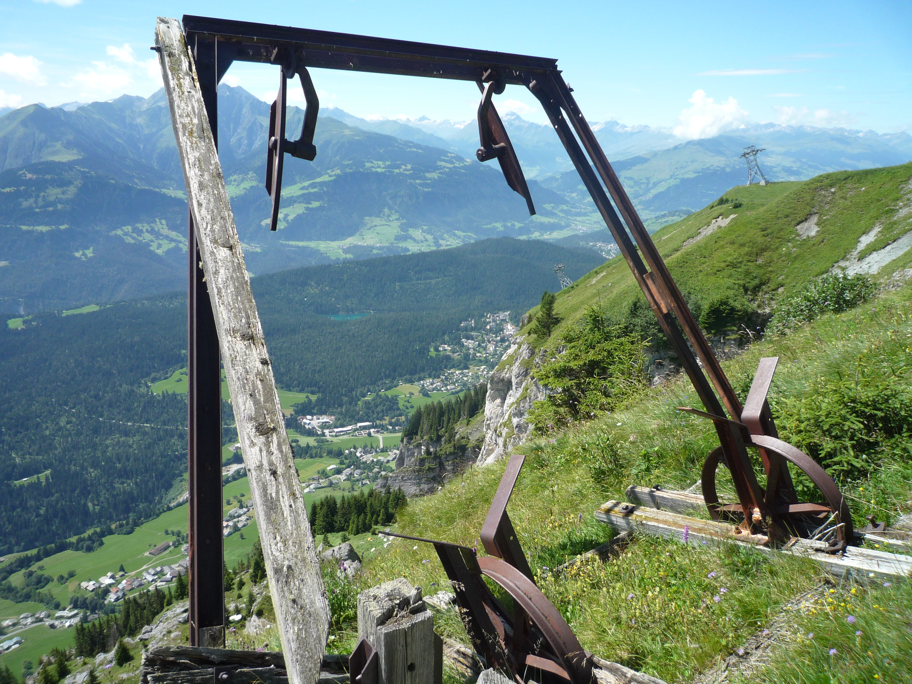 The old cable transport to the summer pasture area on mount Flimserstein served for transport to the settlement of Fidaz seen here below. In the background the pylons of the replacement cable transport.